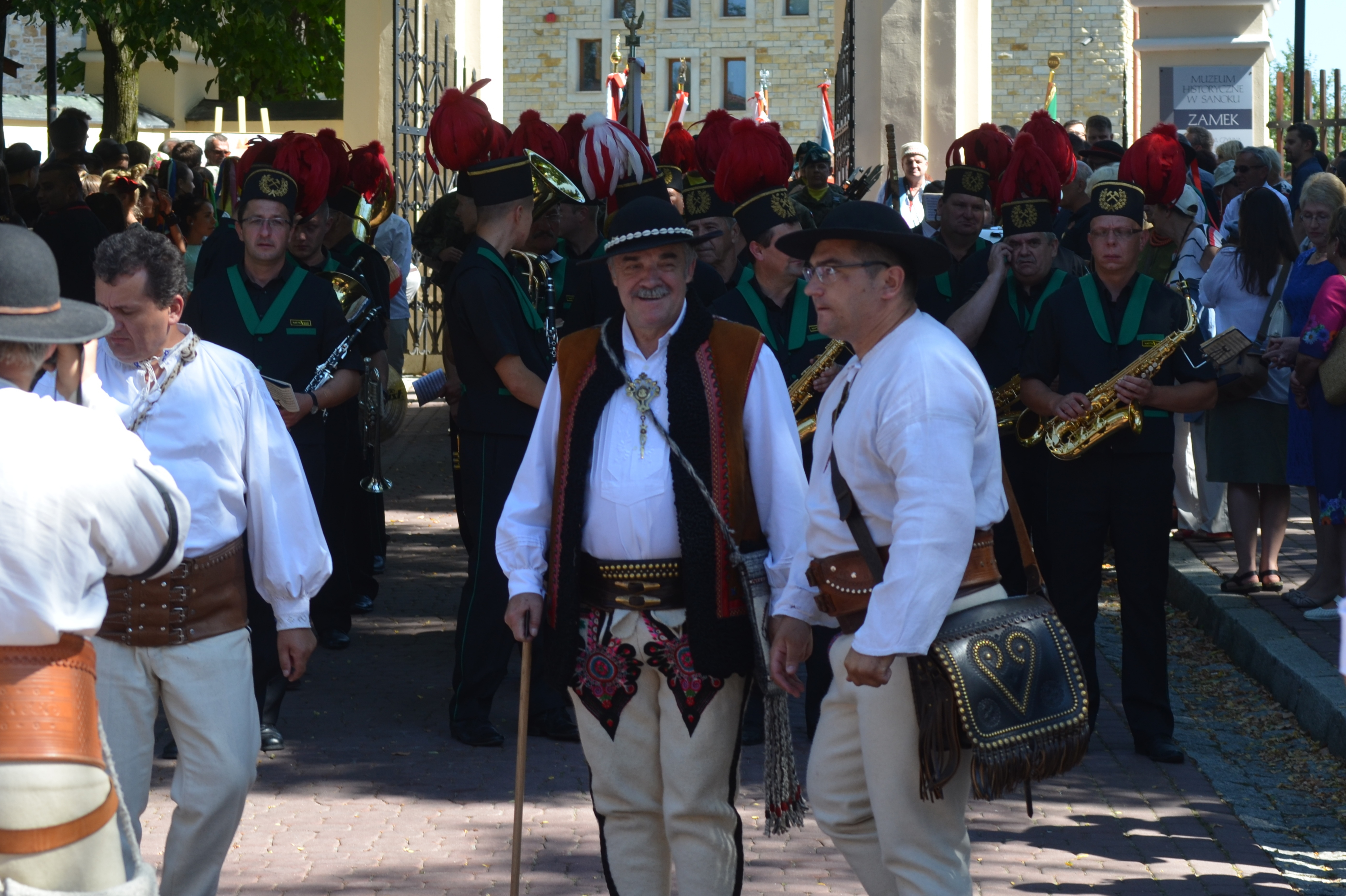 Zjazd Karpacki (Sanok)